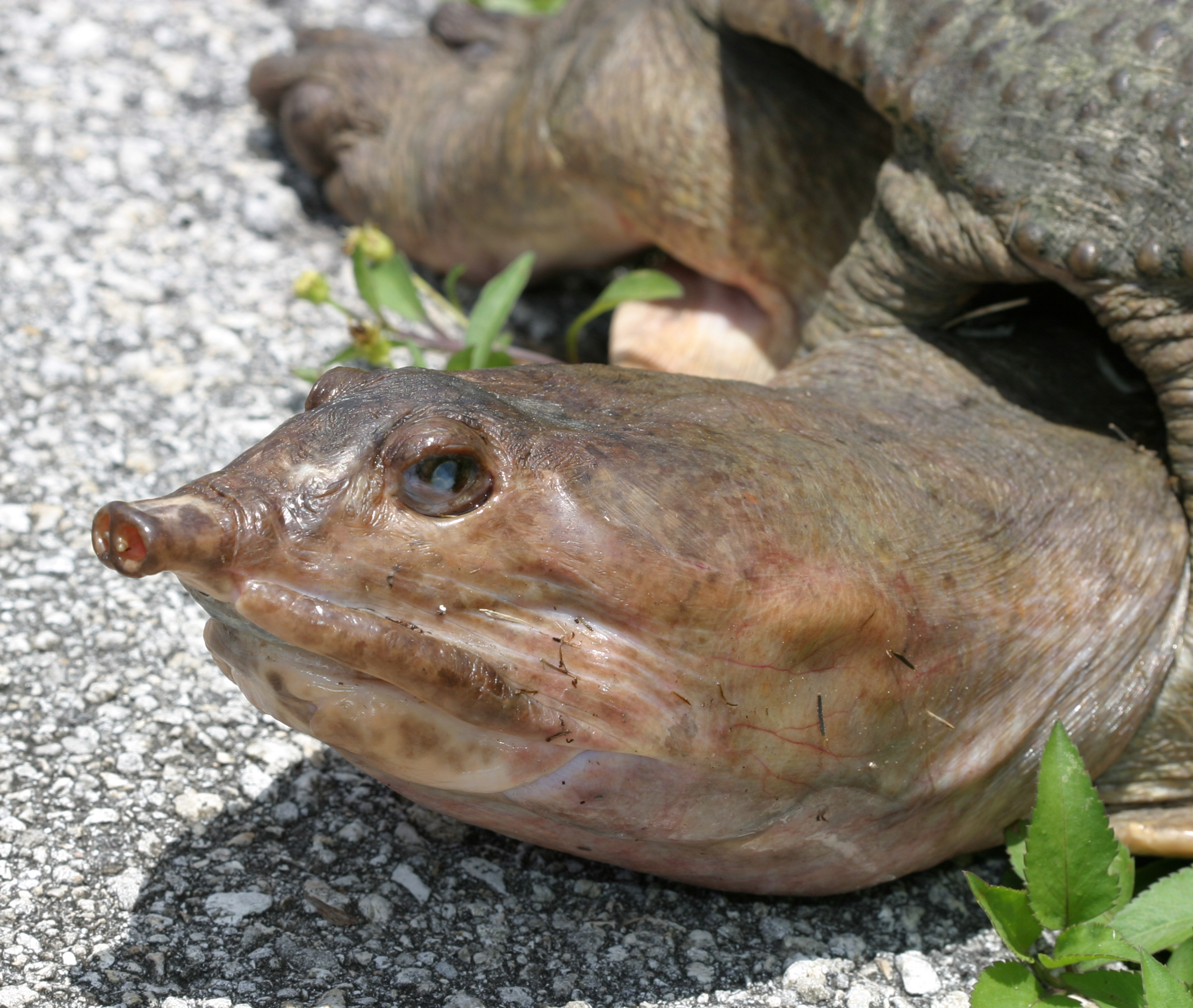 Florida Soft-Shelled Turlte